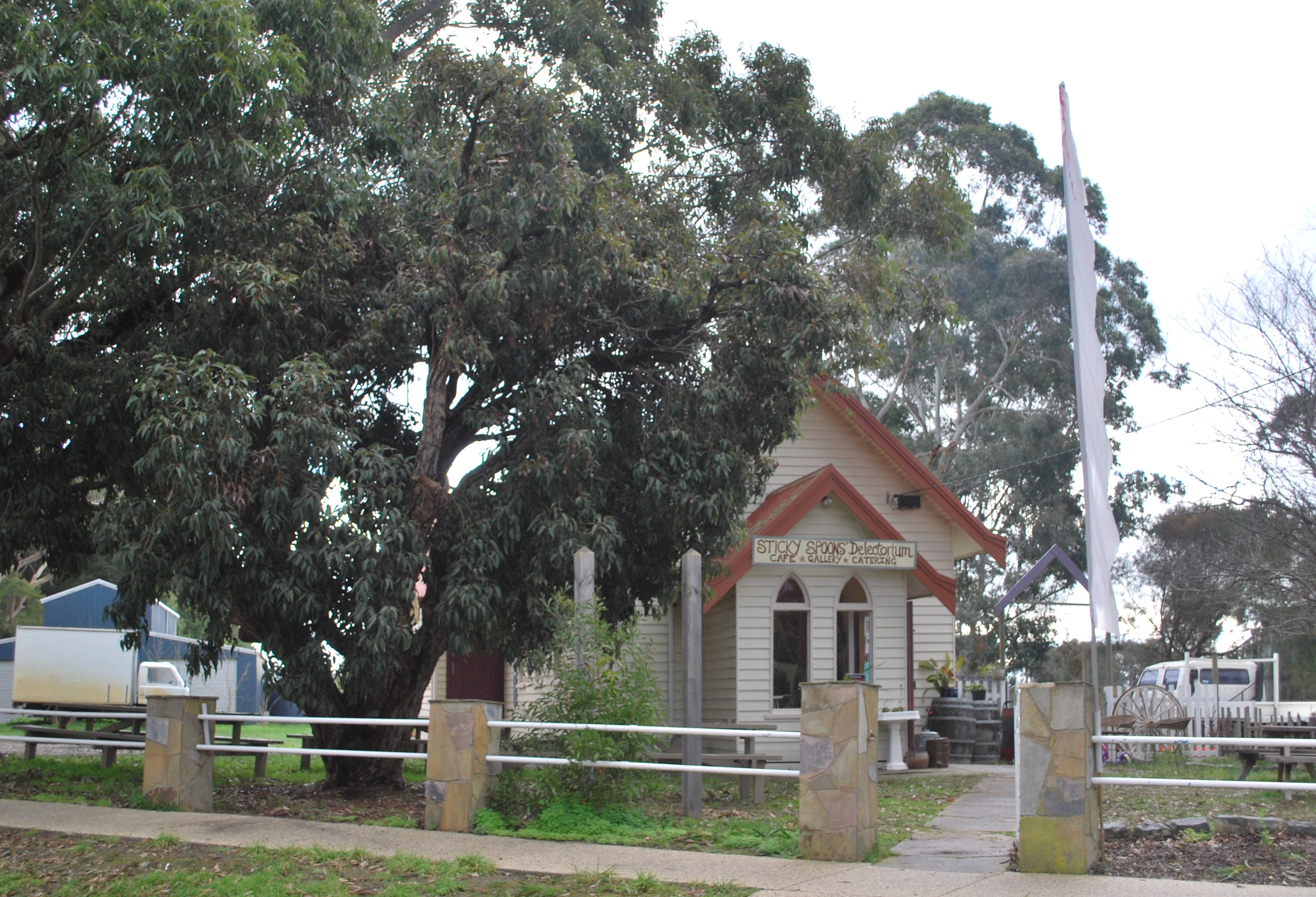 A former church, now a gallery and cafe, at Deans Marsh, Victoria